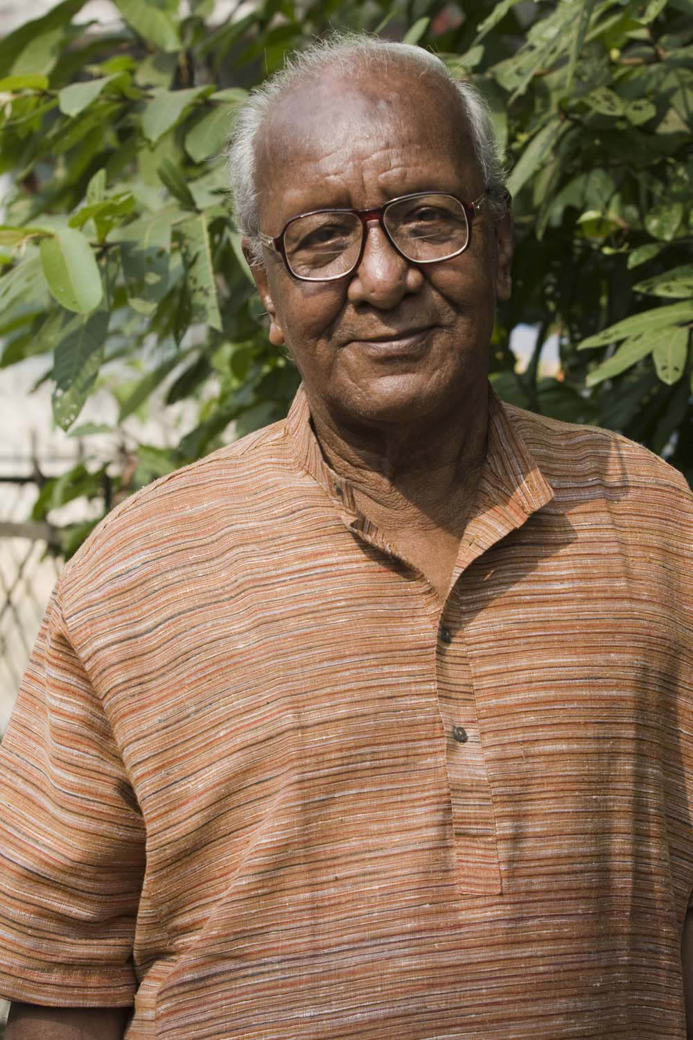 Ajit Roy in the picture.